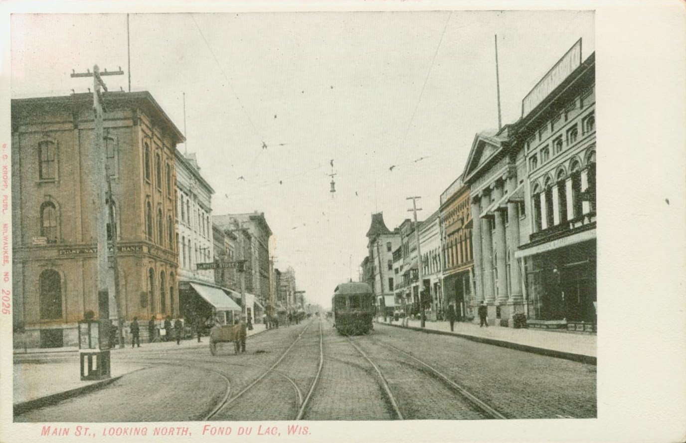 Postcard picture of Main Street, looking north, in Fon du Lac, Wisconsin. Publisher's name printed along lefthand edge: "[G?] C. Kropp, Publ., Milwaukee, No. 202[5? or 6?]"